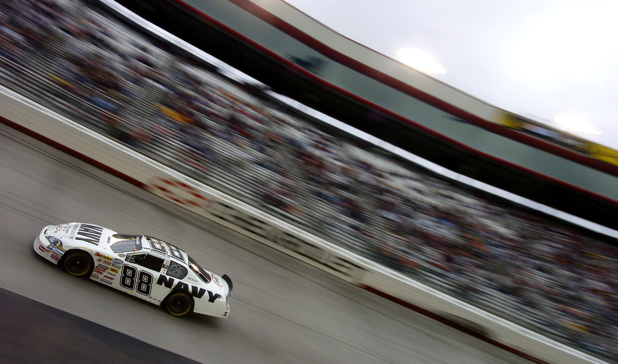 080315-N-5345W-040 BRISTOL, Tenn. (March 15, 2008) Motorsports driver Brad Keselowski motors his way through turns three and four in the #88 Navy Chevrolet Monte Carlo during the Nascar Nationwide series Sharpie Mini 300 at Bristol Motor Speedway. After starting 15th, Keselowski raced his way up to fourth place before the race was called at lap 171 due to rain. U.S. Navy photo by Mass Communications Specialist 2nd Class Kristopher Wilson. (Released)